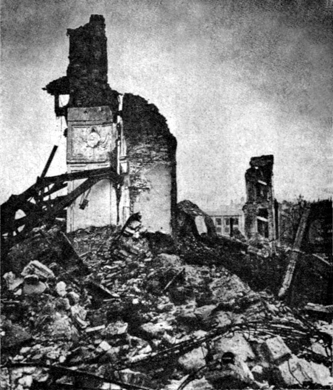 Royal Castle in Warsaw on January 1945. The Castle was deliberately destroyed by the Germans in 1944 - see Planned destruction of Warsaw.